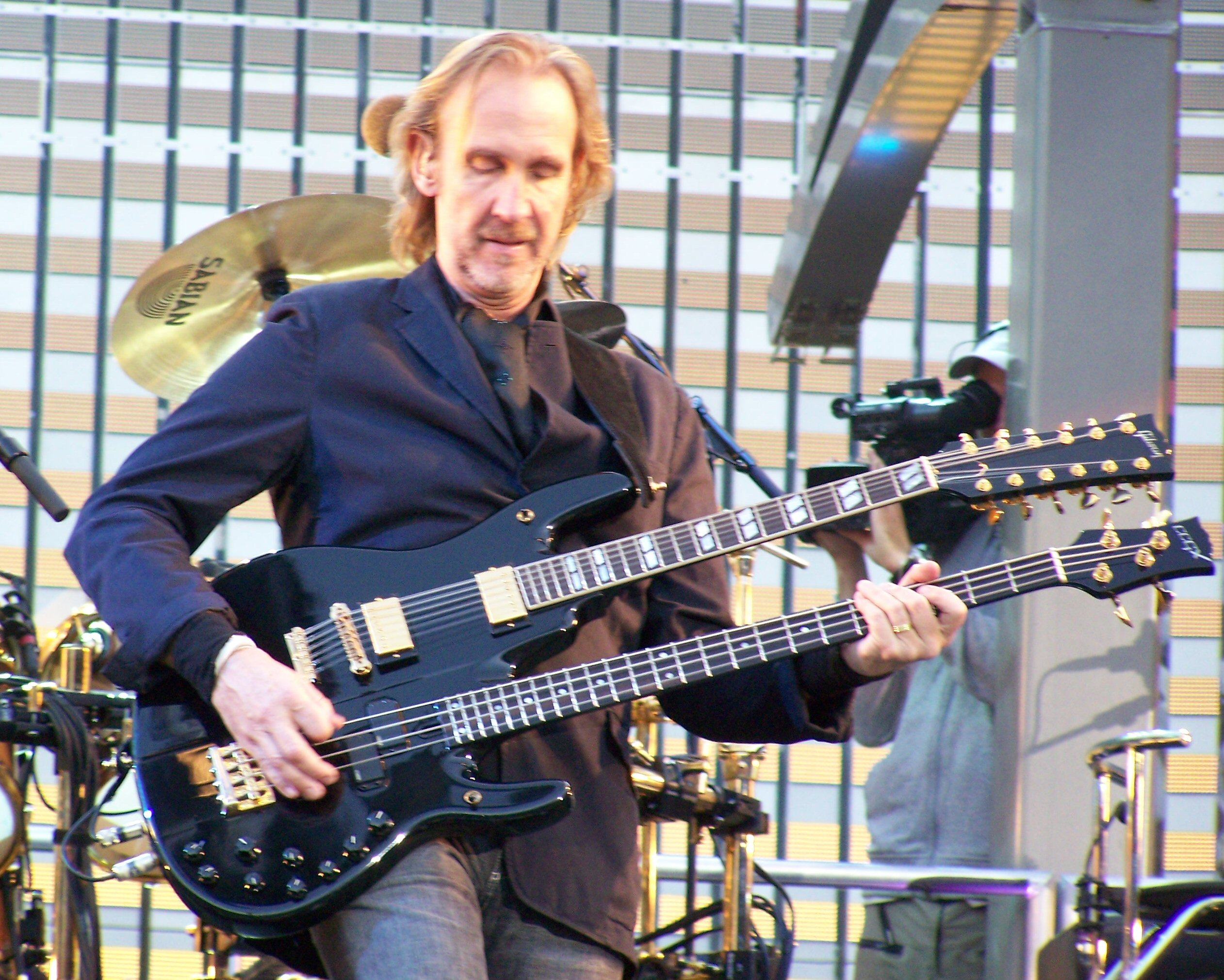 Mike Rutherford at Manchester gig Yamaha Custom Shop double-neck model with a Gibson 12-string guitar and a Yamaha TRB-4P bass “His current double-neck model is a Gibson 12-string guitar with a Yamaha TRB-4P bass ...” —quote from English Wikipedia article Mike Rutherford Further readings blazer (2007-06-09). Mike Rutherford's new double neck.. RickResource. "So there it is, the Yamaha custom shop Rutherford double neck. He first unveiled it during the VH1 Rock Honors concert where Genesis played a couple of tunes. / The bass side of that new double neck DEFINATELY is a Yamaha TRB series bass, the scooped body and the shape of the headstock are give aways but the upper half of that instrument is far more interresting. / According to an interview in the German magazine "Gitarre und Bass" Rutherford stated that they used the neck of his favorite acoustic Gibson twelve string. I assumed that he meant that they'd copy the profile and feel of that particullar neck, figuring that the Yamaha custom shop wouldn't use the actual neck. But lo and behold, the headstock shape and the diamond inlay show that they indeed used a Gibson neck on this double neck. / So if that neck comes from Rutherford's favorite Gibson twelve string, what happened to that Gibson, did it get smashed up?"